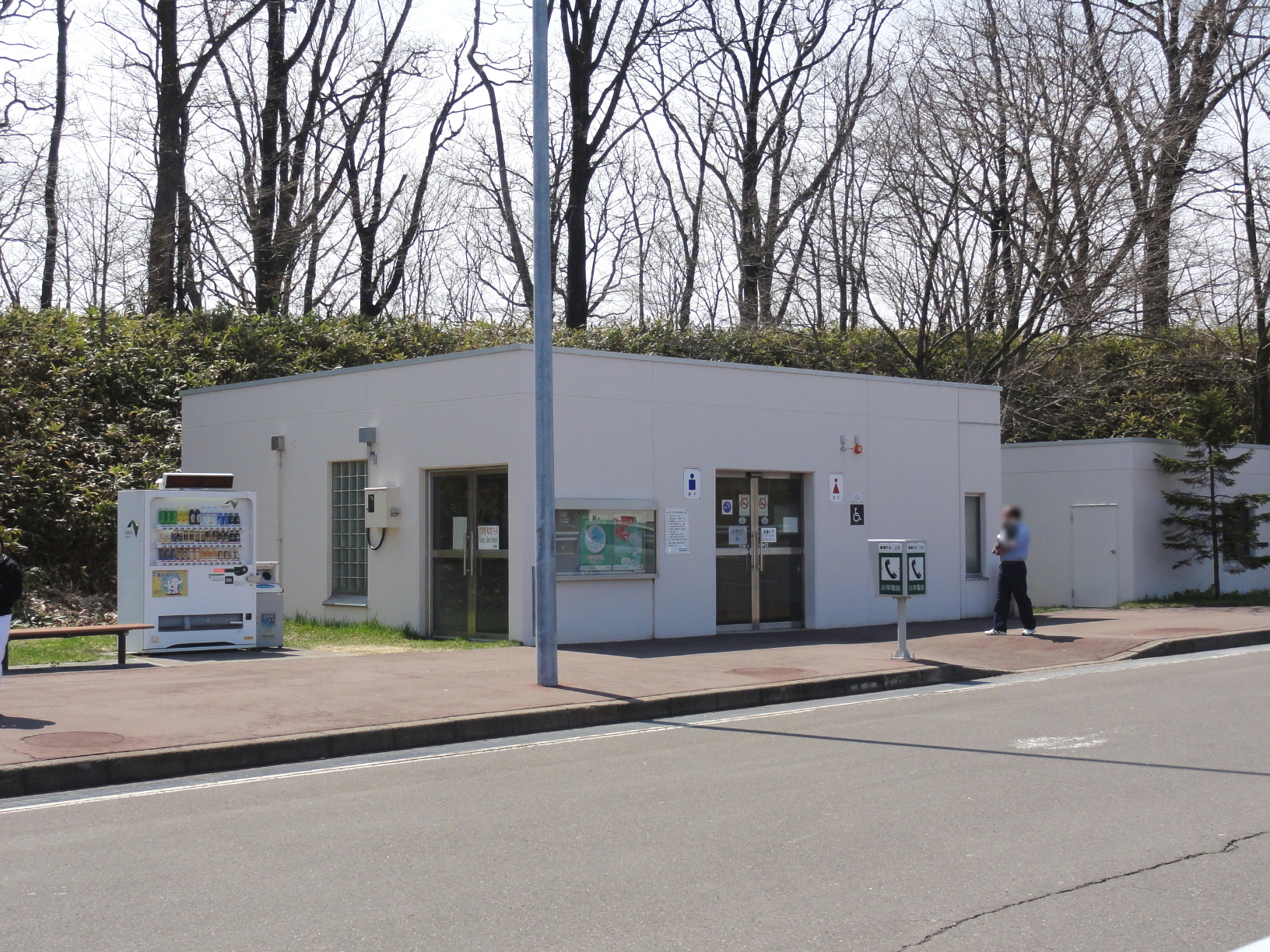 Hokkaidō Expressway Tomiura Parking Area for Hakodate